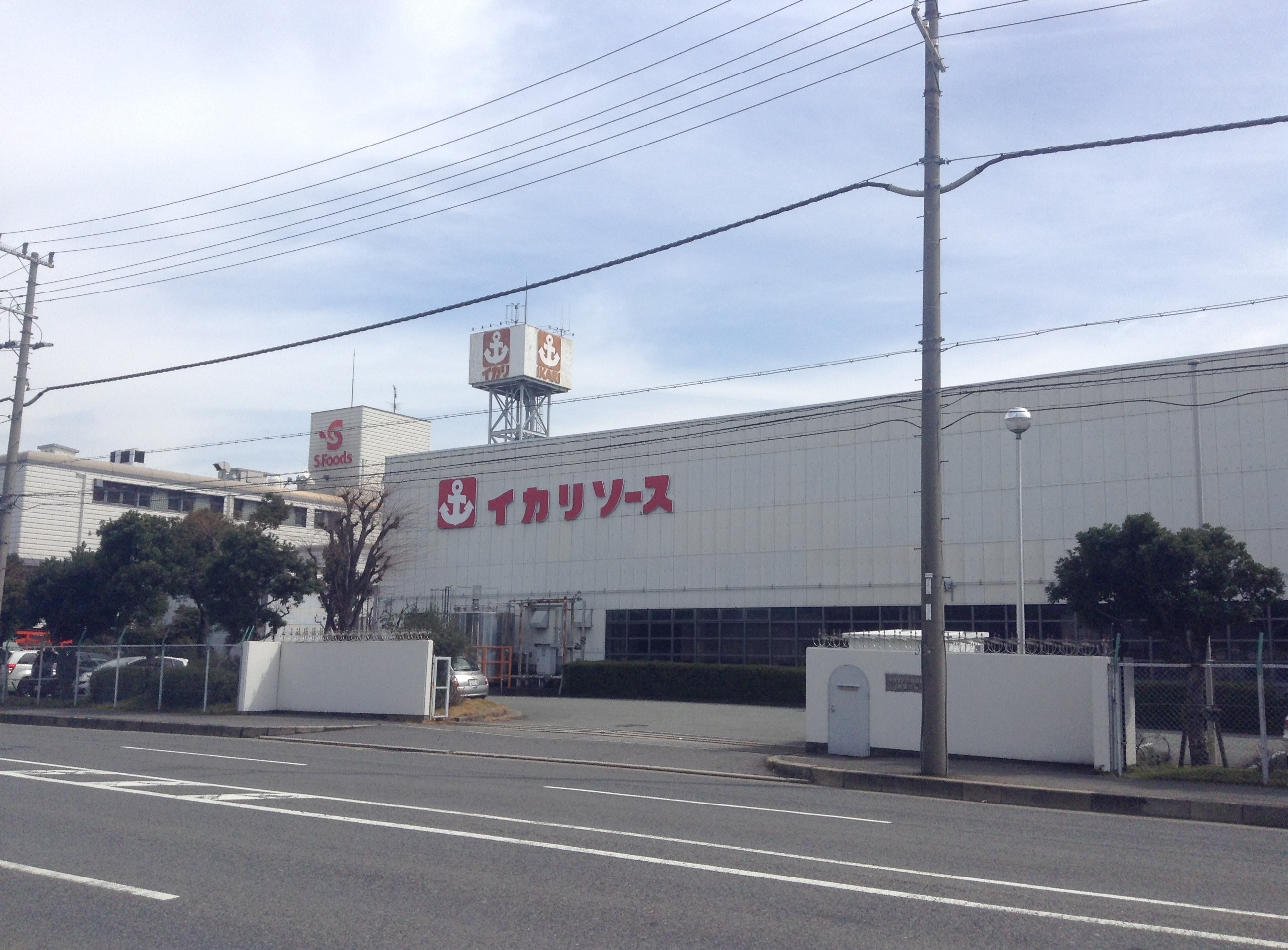 Ikari Sauce Co.,ltd. Nishinomiya-Factory.